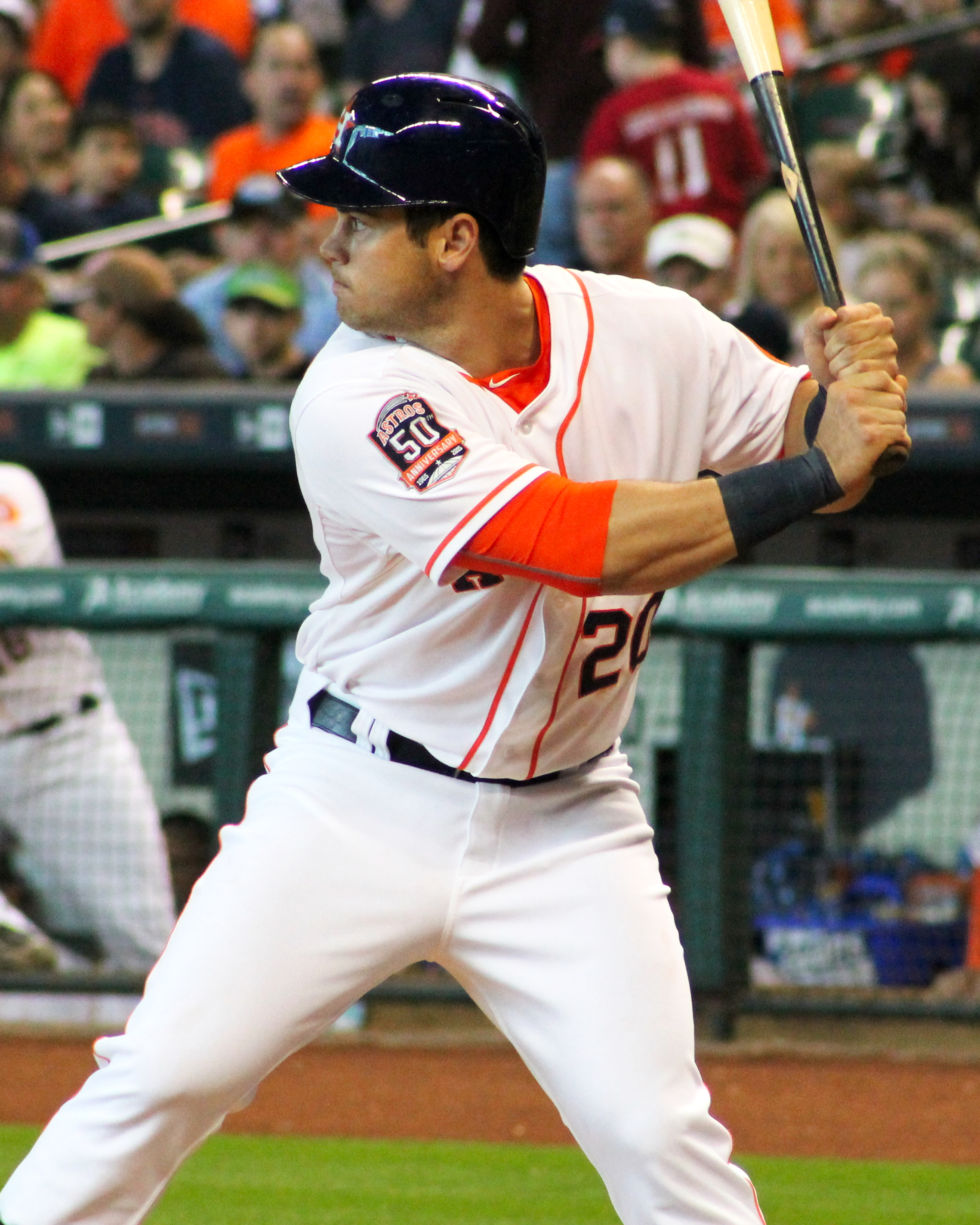 Professional baseball player Preston Tucker during a game at Minute Maid Park in May 2015.